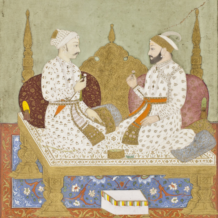 Jai_Singh_II_of_Amber (left) and Sangram_Singh_II_of_Mewar (right).